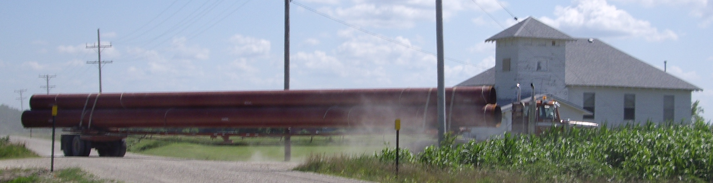 Truck hauling 36-Inch Pipe to build Keystone-Cushing Pipeline (Phase 2) southeast of Peabody, Kansas, USA. Location is Timber Rd and 20th St in Marion County. Looking southwest with rural Whitewater Center Church in background. Photo by Steve Meirowsky on July 10, 2010. Note 1: The rear wheels on this truck has independent steering. Note 2: The pipeline is located 0.6 miles west of this corner.